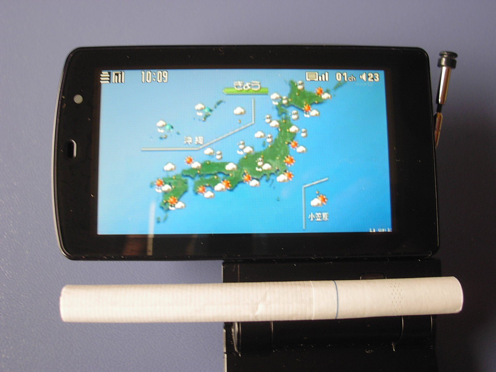 One seg TV reception with Mobile phone Docomo Model F904i, NHK Weather forecasting. The length of cigarette is 84mm.